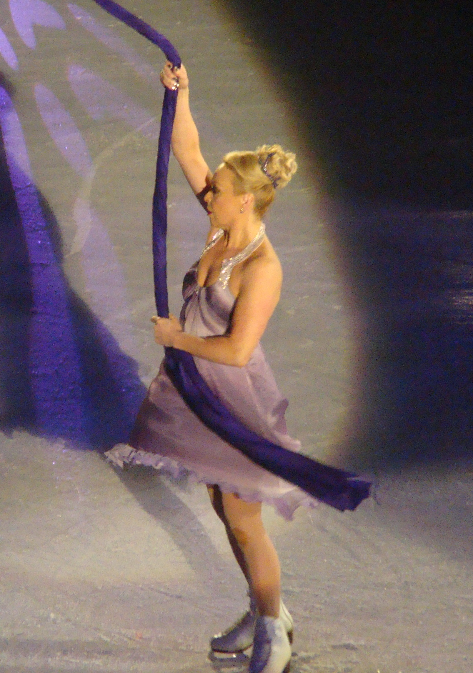 Jayne Torvill on the Dancing on Ice tour in Manchester, England